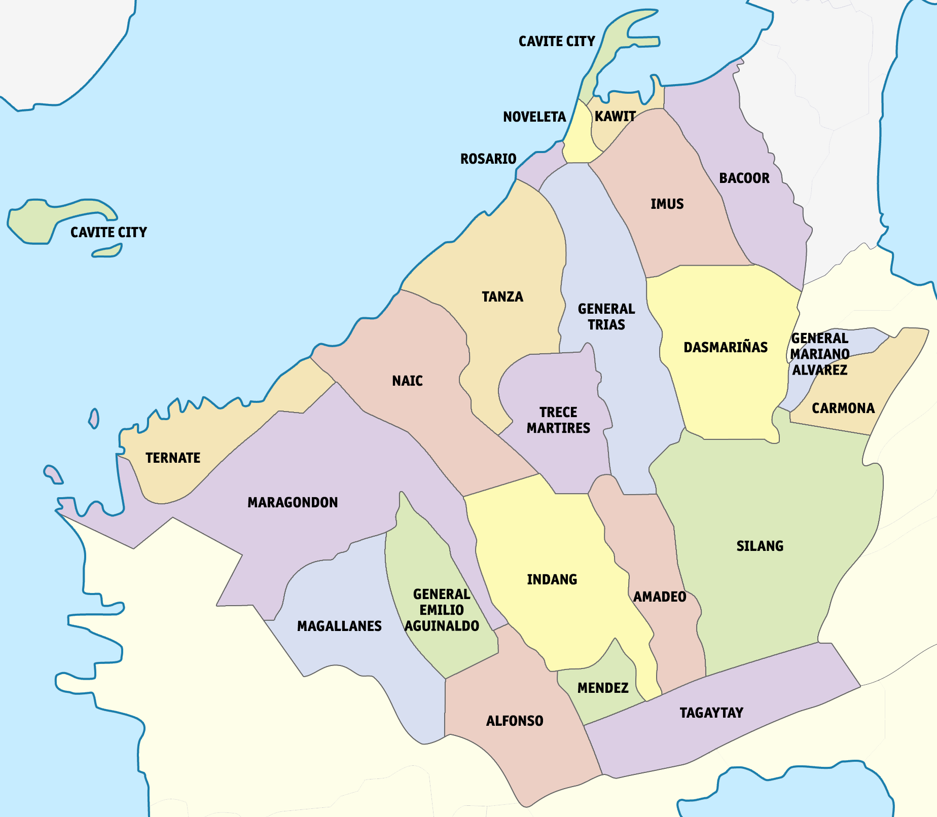 Political map of Cavite, Philippines